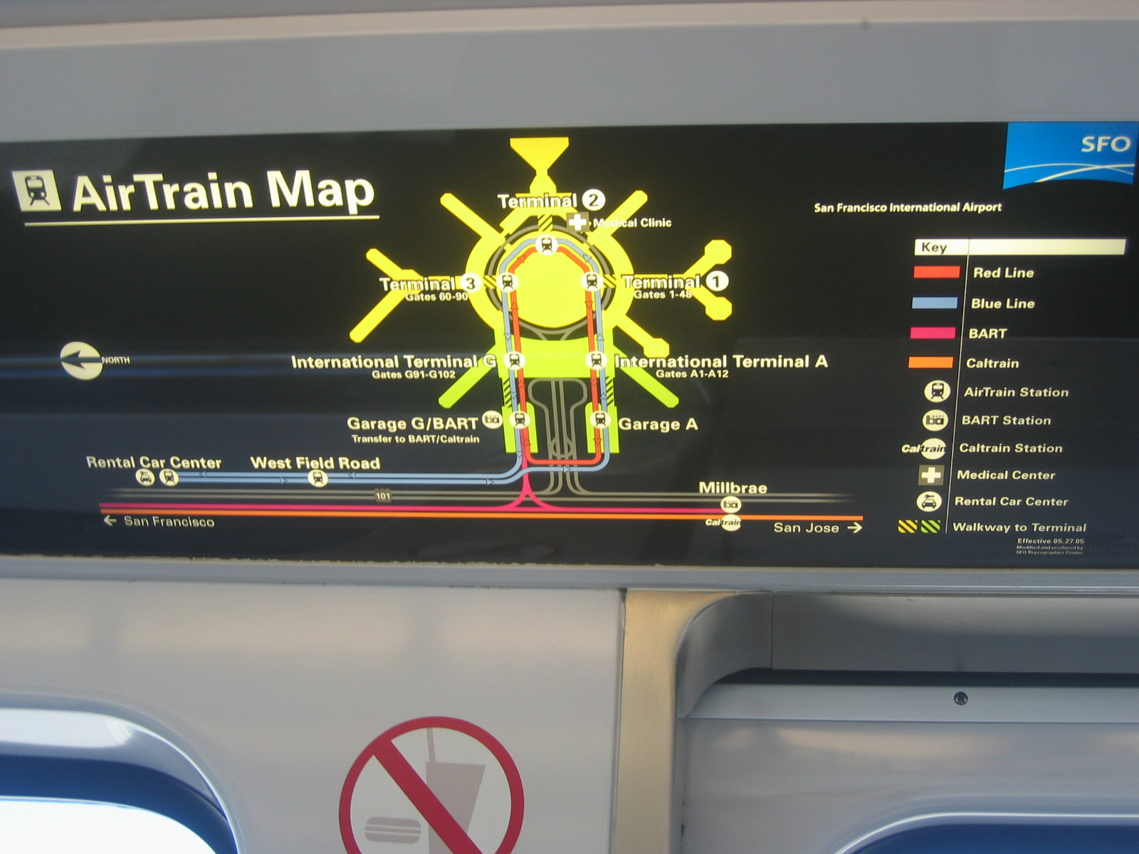 Map inside AirTrain at San Francisco International Airport